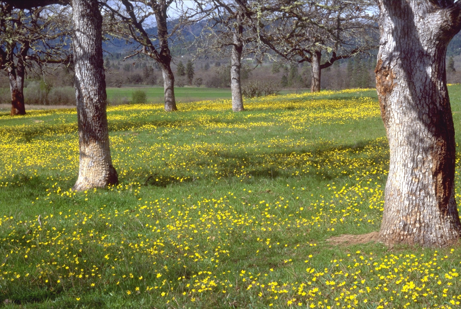 Oak savannah with buttercups in a meadow near Antioch Road in Sam's Valley, White City, Oregon.